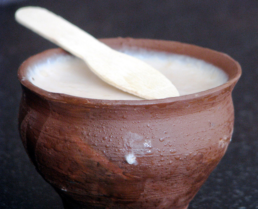 Cool Mishti Doi on a hot summer day in Kolkata. Quenching and sweet and provides relief.